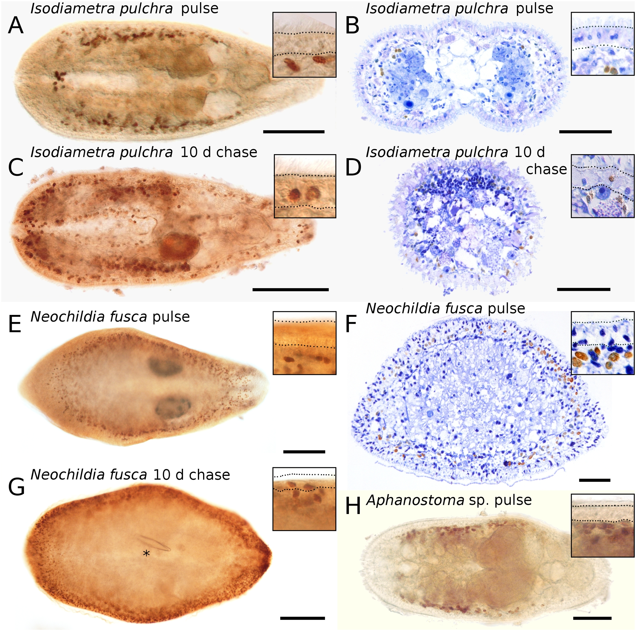 Localization of BrdU-containing cells in the acoels Isodiametra pulchra, Neochildia fusca and Aphanostoma sp. after a short BrdU pulse (A–B, E–F, H) and 10 days chase (C–D, G). (A, C, E, G–H) wholemounts of adult animals, (B, D, F) semithin cross sections. Insets: details of the epidermis, encompassed by dotted lines. Anterior to the left. (A–B, E–F, H) Note the lack of S-phase cells (brown nuclei) in the epidermis after 30 min BrdU pulse. (C–D, G) BrdU-labeled cells (brown nuclei) migrated from the mesodermal space to the epidermis and differentiated into epidermal cells during the 10 days chase period. Asterisk denotes diatom in digestive parenchyma. Scale bar is 50 µm for (B, D, F, H), 100 µm for (A, C), and 200 µm for (E, G).